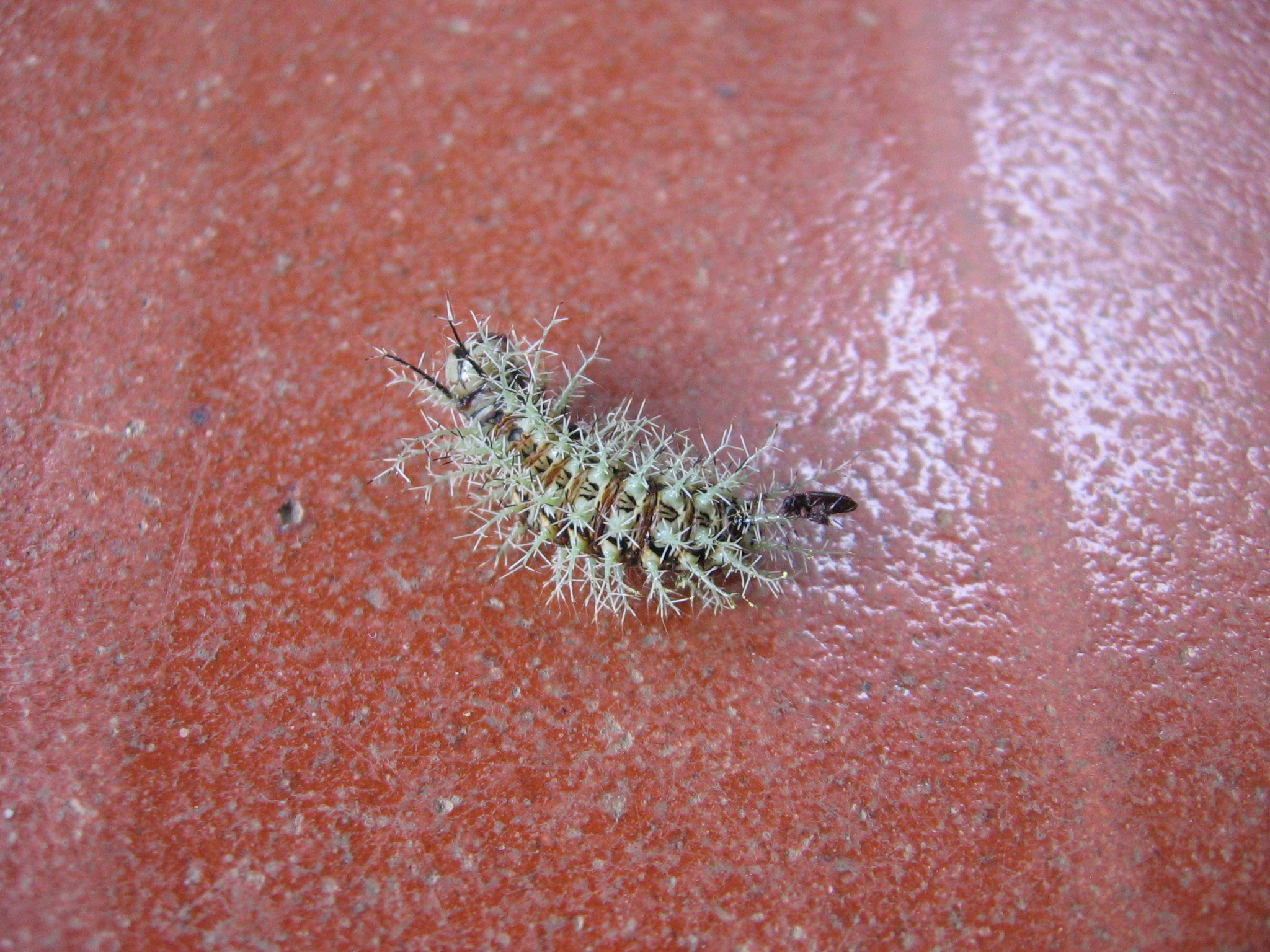 Taturana, a venomous caterpillar. Caterpillar of a Brazilian moth of the family Saturniidae.